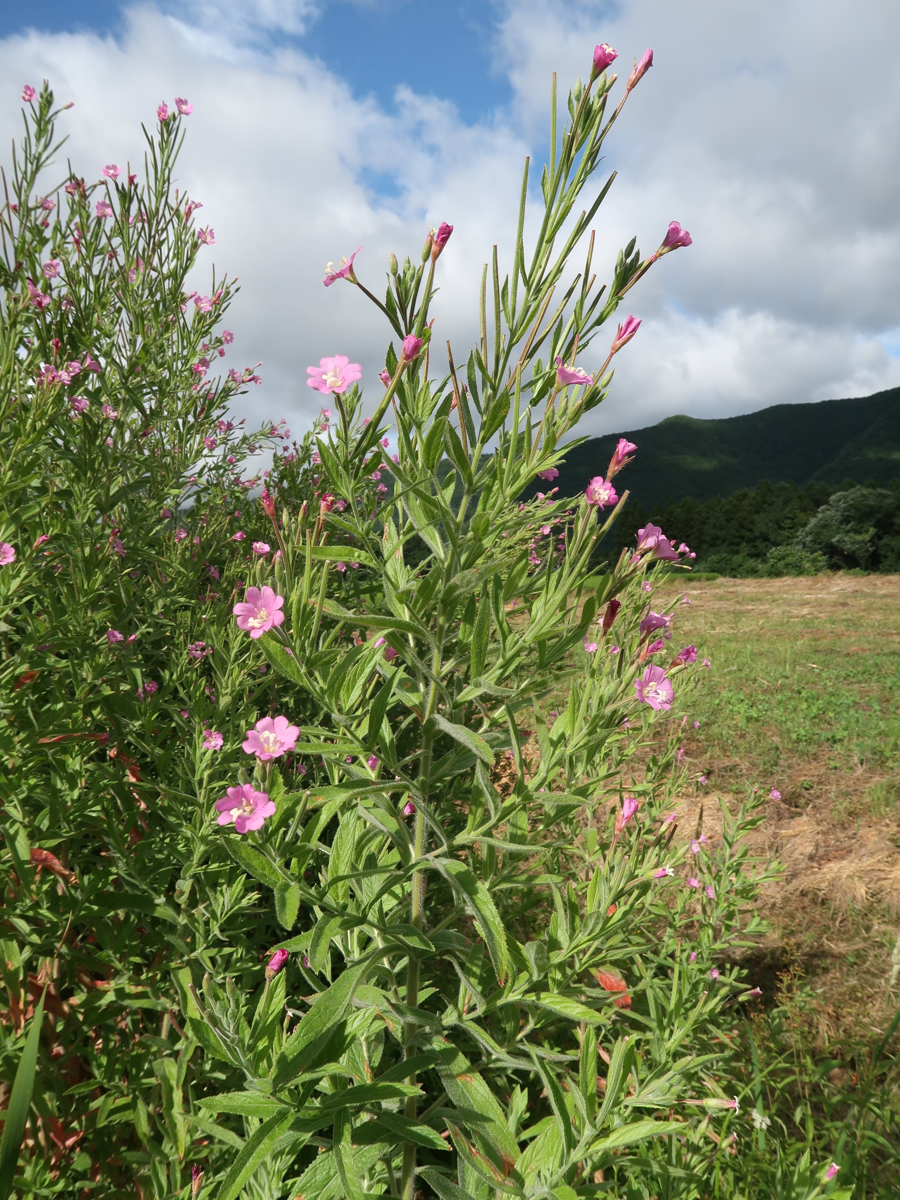 Epilobium hirsutum, Aizu area, Fukushima pref., Japan